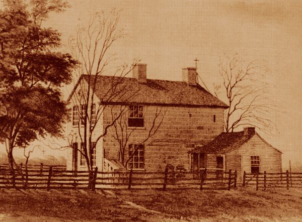 An etching of the Carthage, Illinois jail, circa 1885.